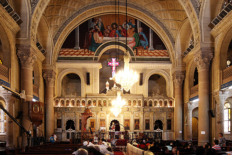 Inside the Coptic orthodox Cathedral of St. Mark, Alexandria, Egypt